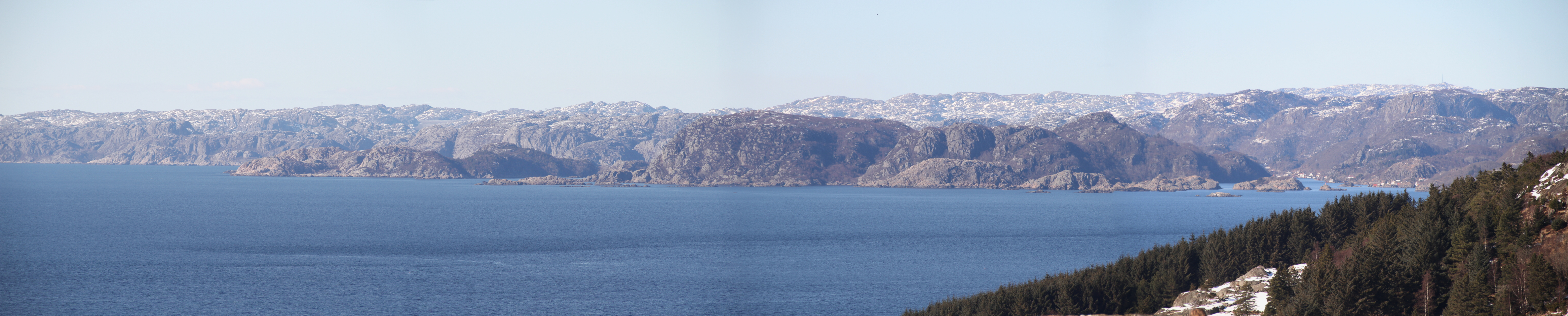 Panorama of the east coast of Hidra island, in the Feda Fjord in Vest-Agder county, Norway. The image is taken from the east (Lista peninsula) towards west.